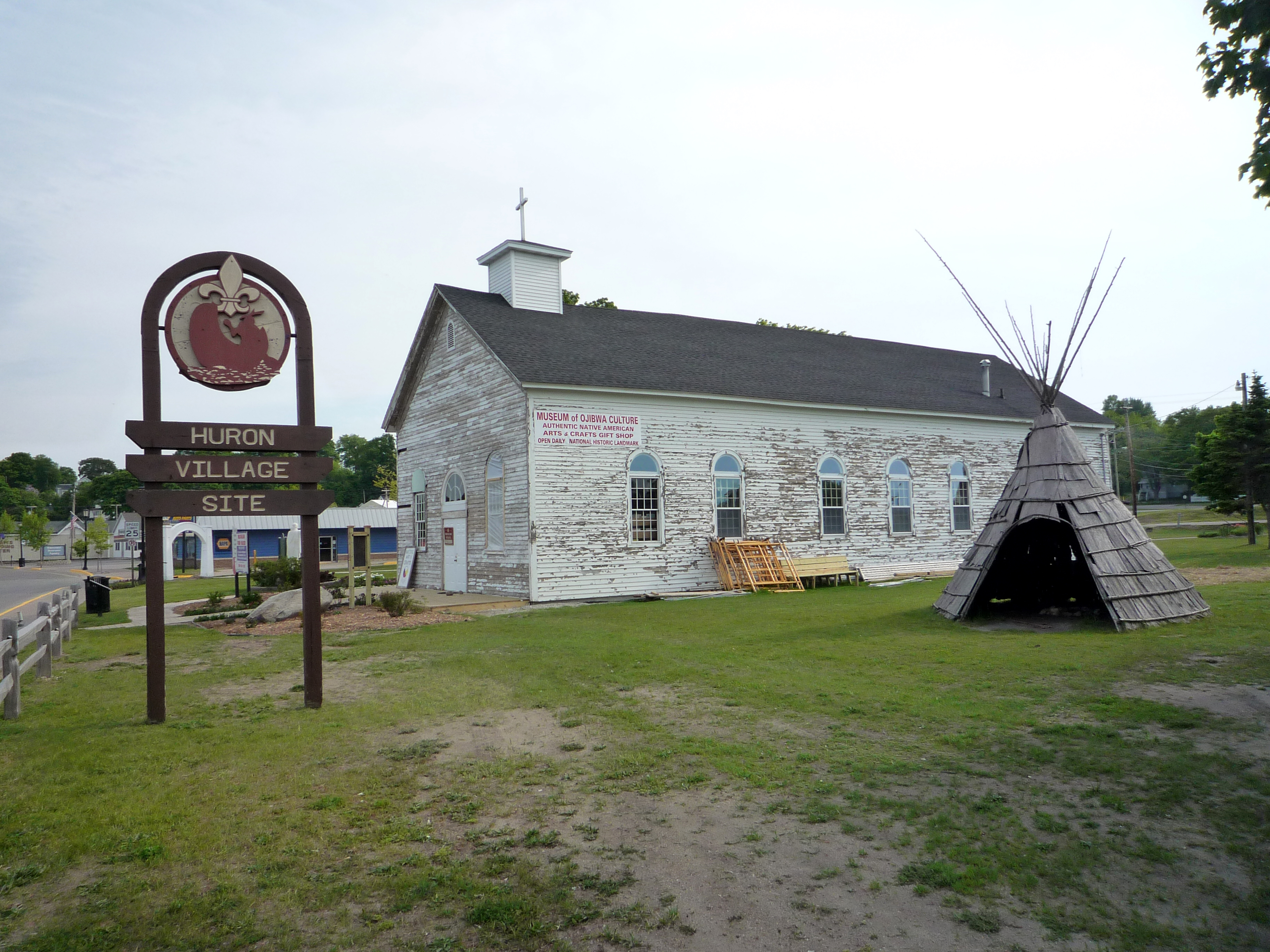 The Museum of Ojibwa Culture sits on the site of a Huron village as well as the original St. Ignace Mission, founded by Father Jacques Marquette who was also buried at the site, St. Ignace, Michigan, USA.